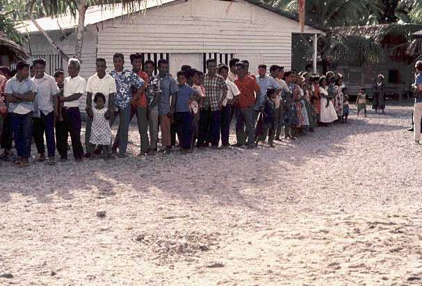 People of Bikini Atoll